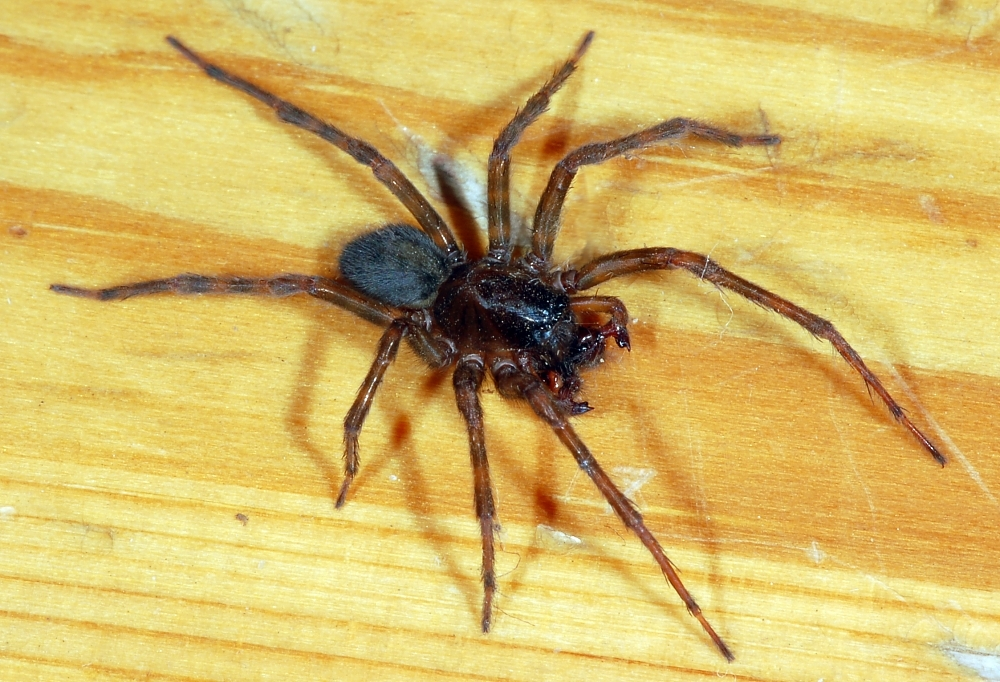 Amaurobius ferox [det. Benedikt & Michael Hohner], Nied, Frankfurt/Main, Germany